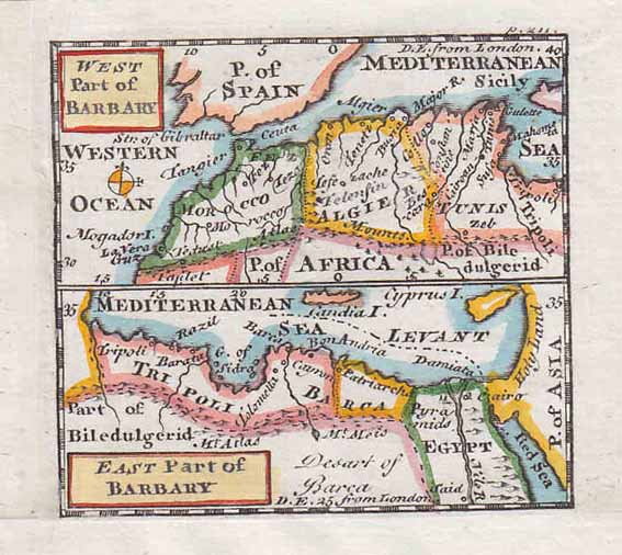 A New and easy introduction to the study of geography, map of North Africa - 1744